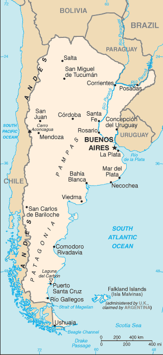 Argentina map from CIA World Factbook, converted from original GIF format. This map violates legal regulations Argentina: Ley de la Carta [Law No. 22963].